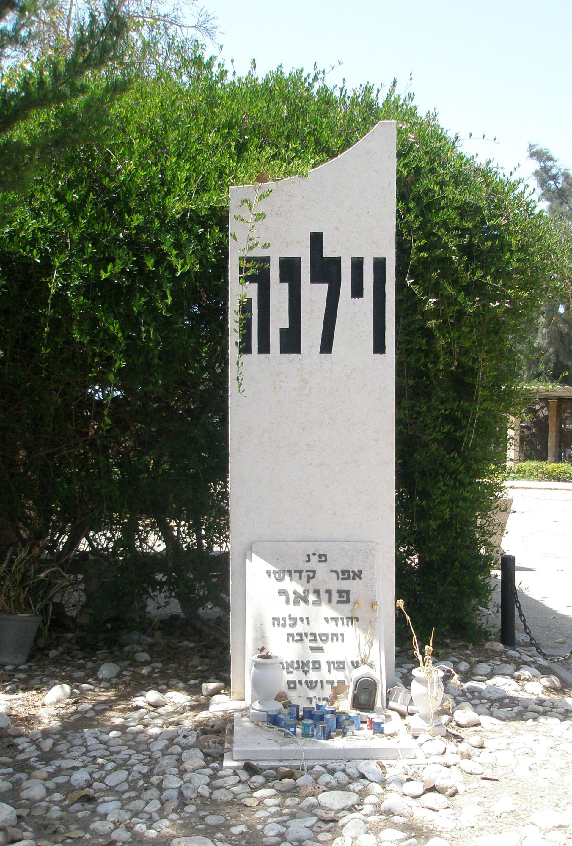 Vilnius Jewery memorial at Kiriat Shaul cemetery